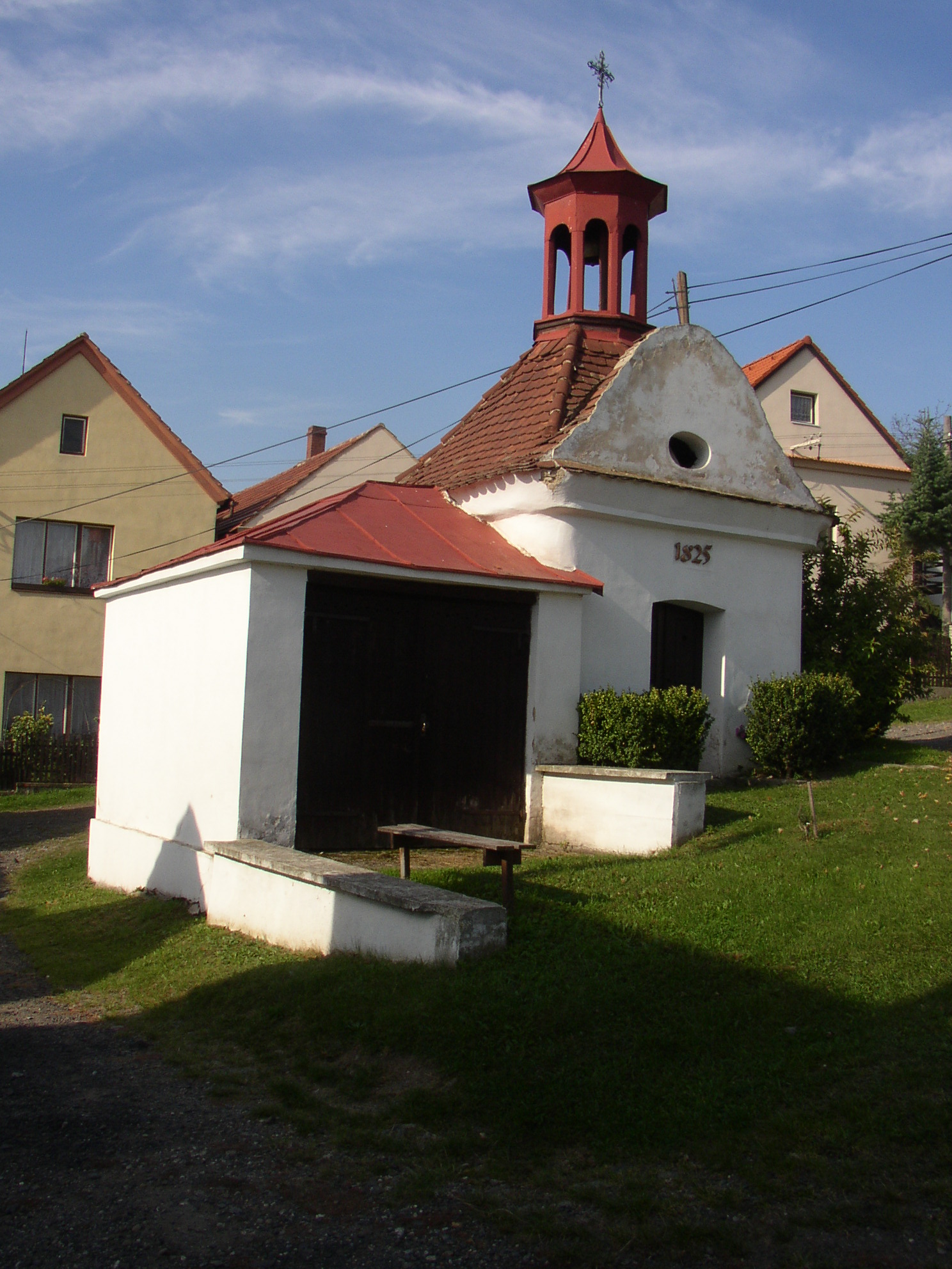 Chrášťany, Litoměřice District, Czech Republic. Upper common - a chapel from 1825 with a peculiar later extension (a fire engine shed).